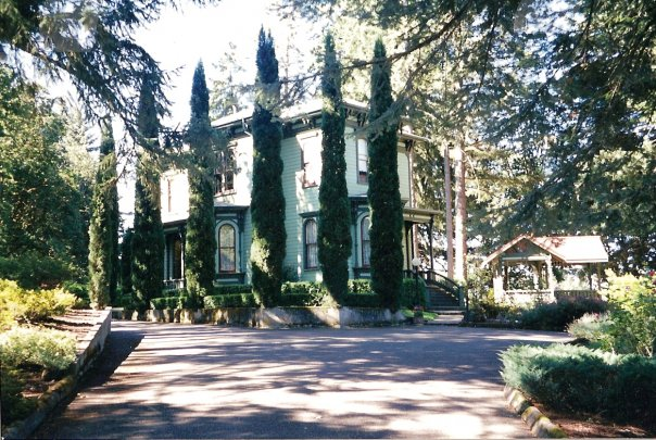 The Port-Manning House at 4922 Halls Ferry Road South, Salem, Oregon, United States, is listed on the US National Register of Historic Places (NRHP). It is currently in its historic use as a residence, although it has been moved from its original site. NRHP reference number 78002301